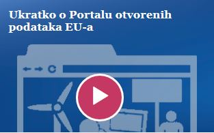 Screenshot from Open Data Portal